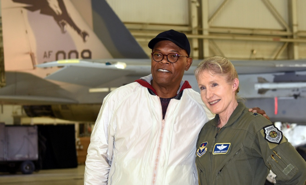 Actor Samuel L. Jackson poses with Gen. Jeannie Leavitt after receiving a challenge coin from her during a media event for "Captain Marvel" at Edwards Air Force Base, Calif., Feb. 20, 2019. Leavitt, the first Air Force female fighter pilot, was a consultant on the movie, and Jackson reprised his Nick Fury role. (DoD photo by Shannon Collins)